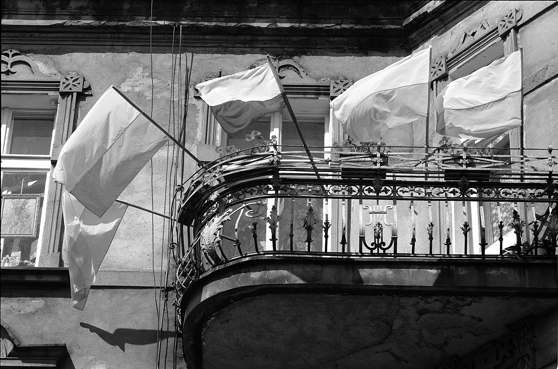 Photography in Black and White of a Balkony in Gniezno, Poland